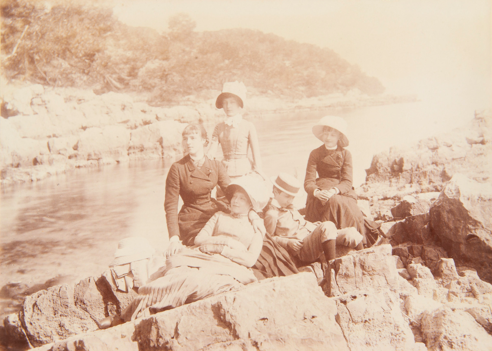 Photograph showing a family group sitting on rocks by a river or lake. Princess Amélie (1864-1951) sits on a rock with Princess Hélène (1871-1951) standing to her left. In front of Amélie is Princess Marie (1865-1909) with Prince Jean (1874-1940) sitting next to her. On his right, sits Princess Marguérite (1869-1940).